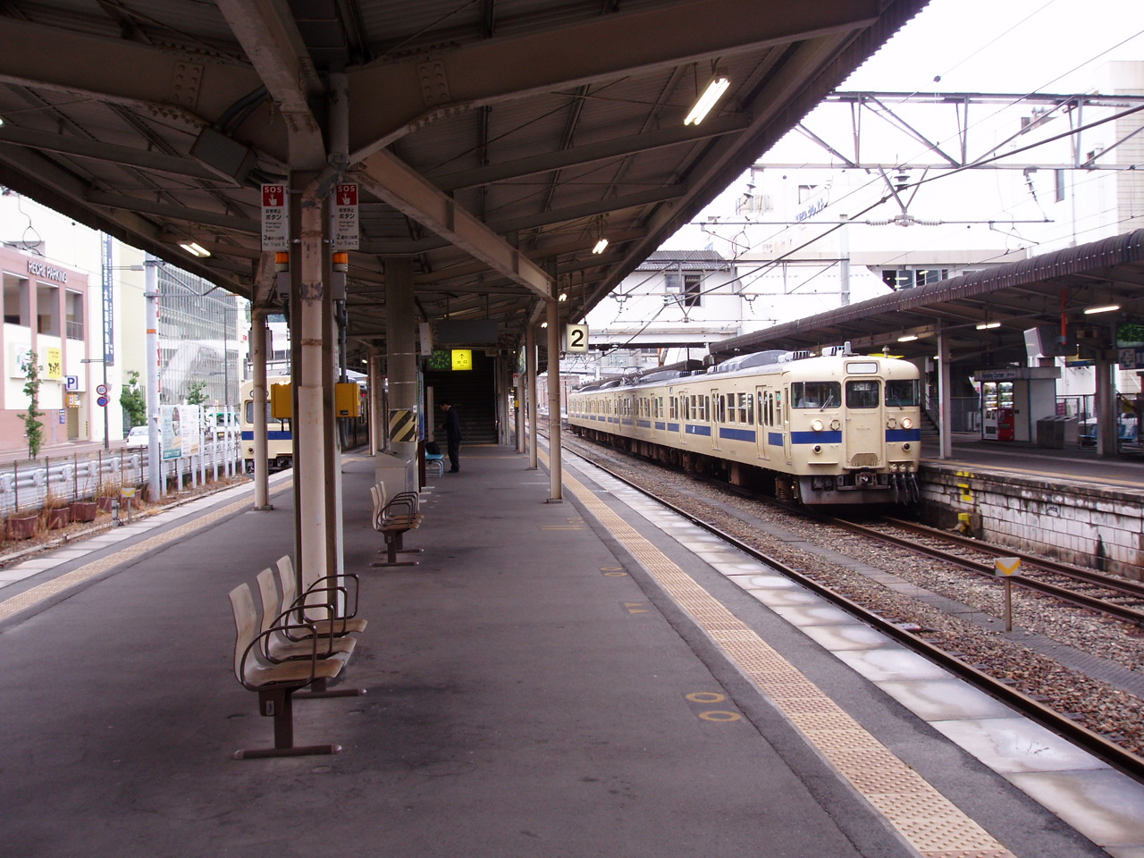 West Japan Railway Kure Line Kure Station Platform 西日本旅客鉄道 呉線 呉駅駅ホーム